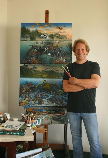 RobertLynNelson